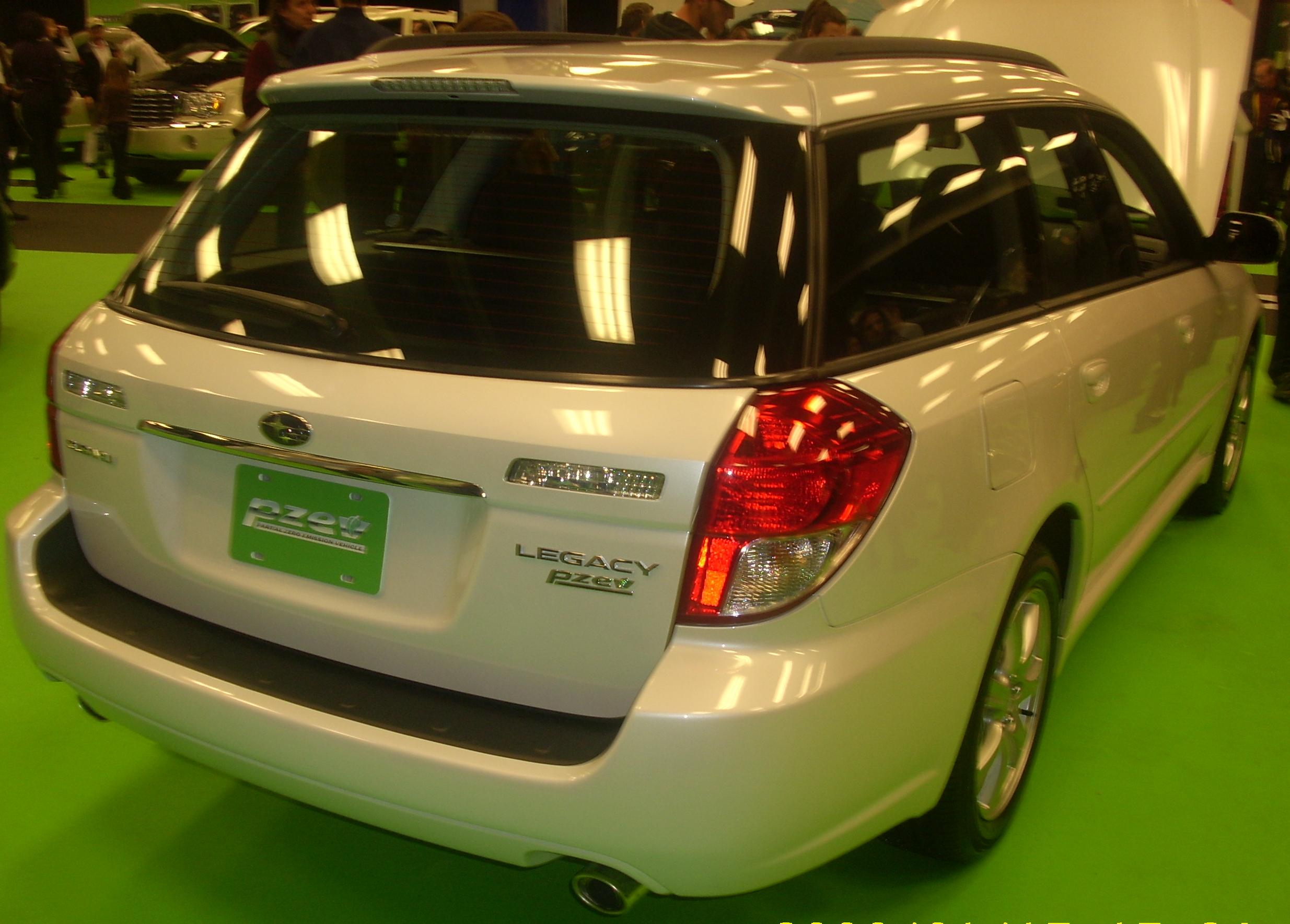 2009 Subaru Legacy photographed at the 2009 Montreal International Auto Show.